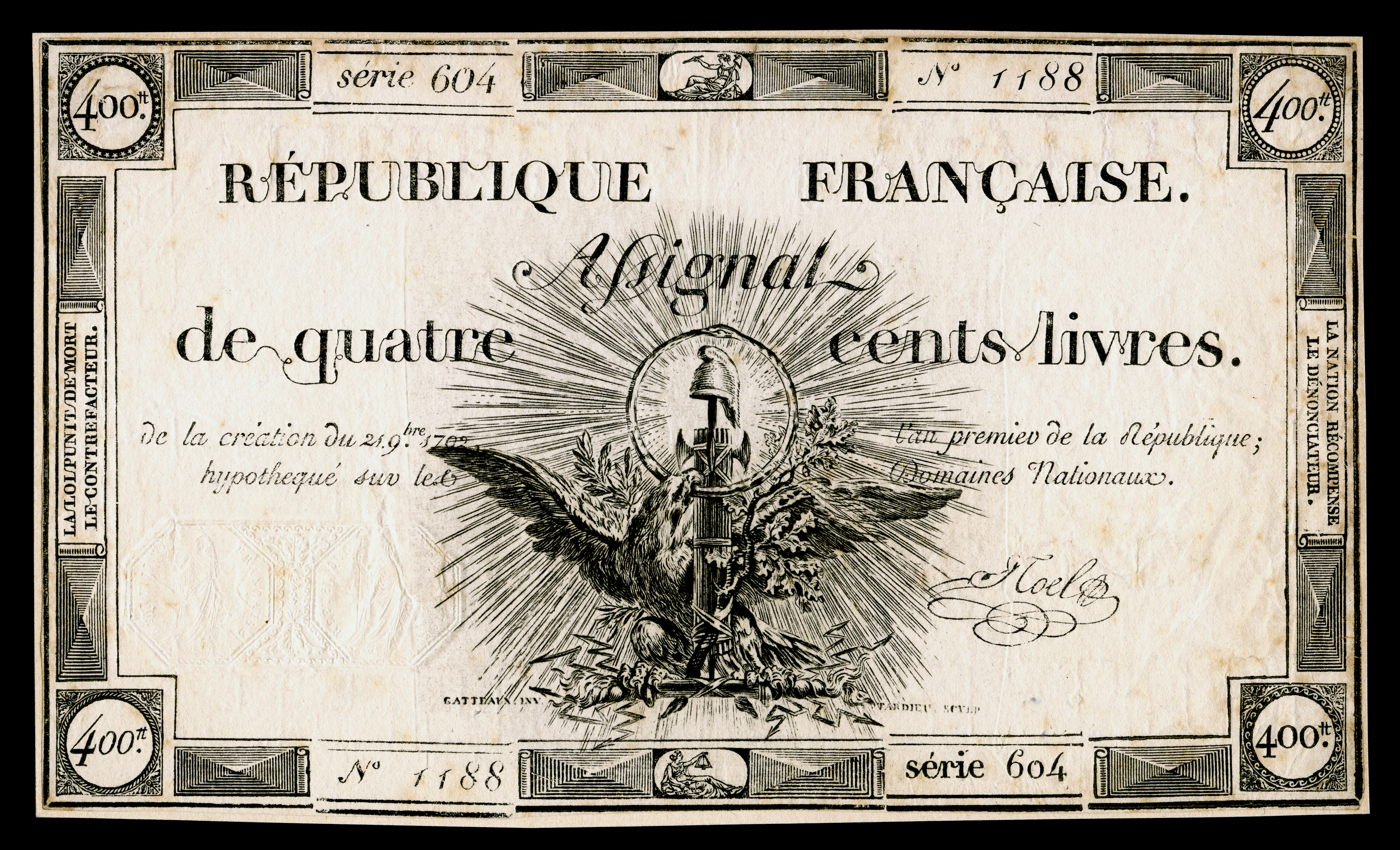 Early French banknote issue during the French Revolution (Assignat) for 400 livres, 1792 (Pick ref# A73).